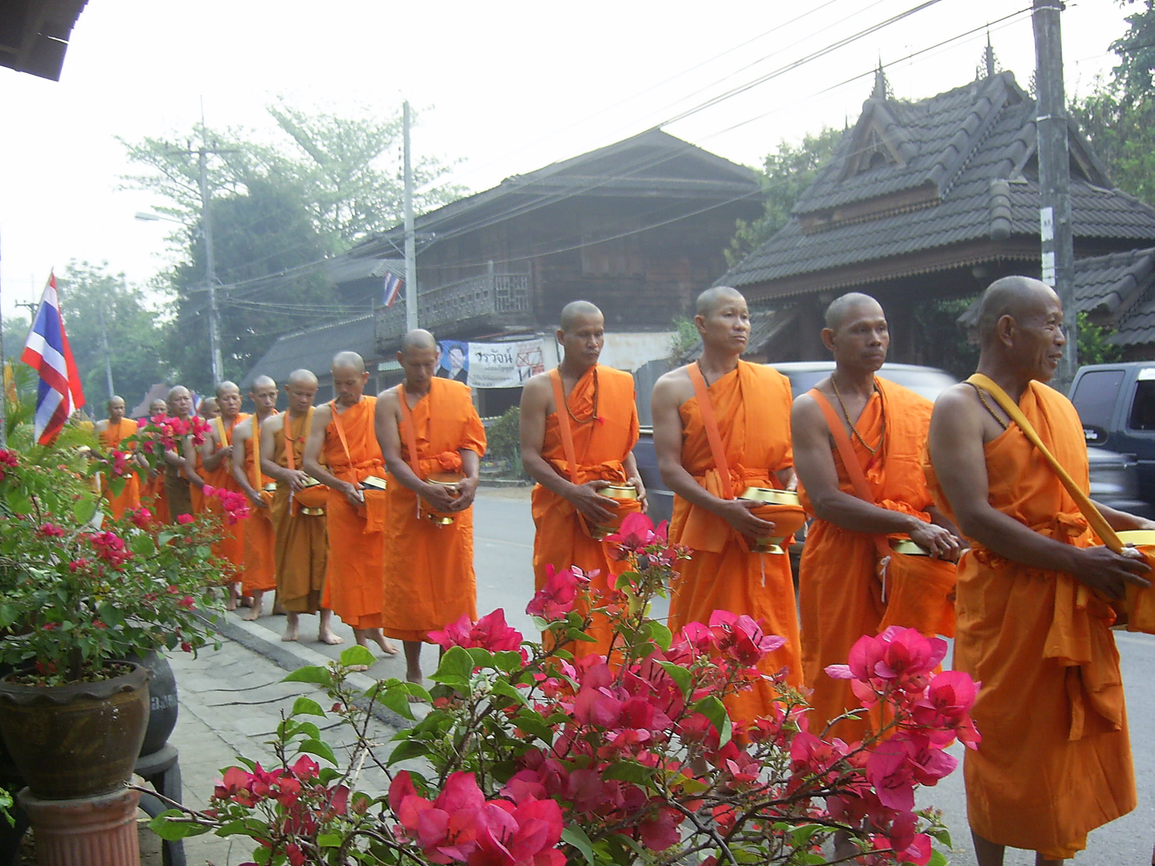 Phrae, Thailand